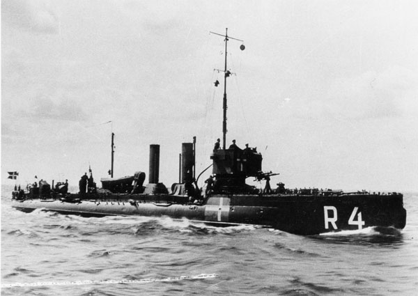 Minesweeper Havkatten successfully escaped to Sweden on 29 August 1943 and joined Den Danske Flotille (original photo in The Danish National Museum of Military History)